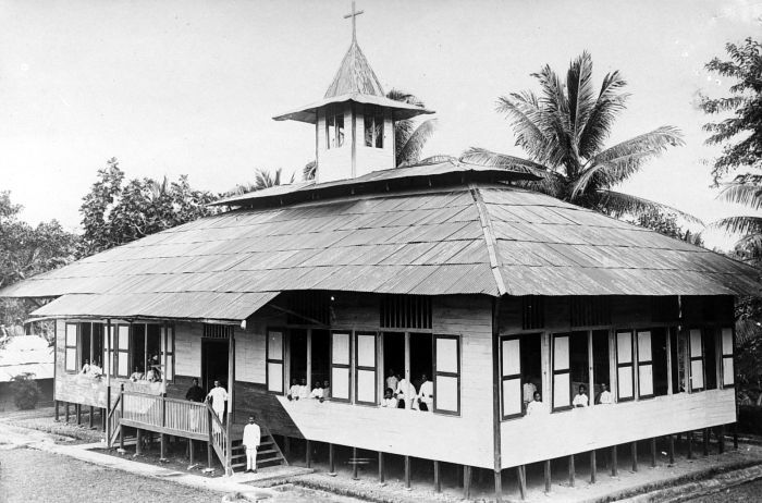 Seminary at Ombolata